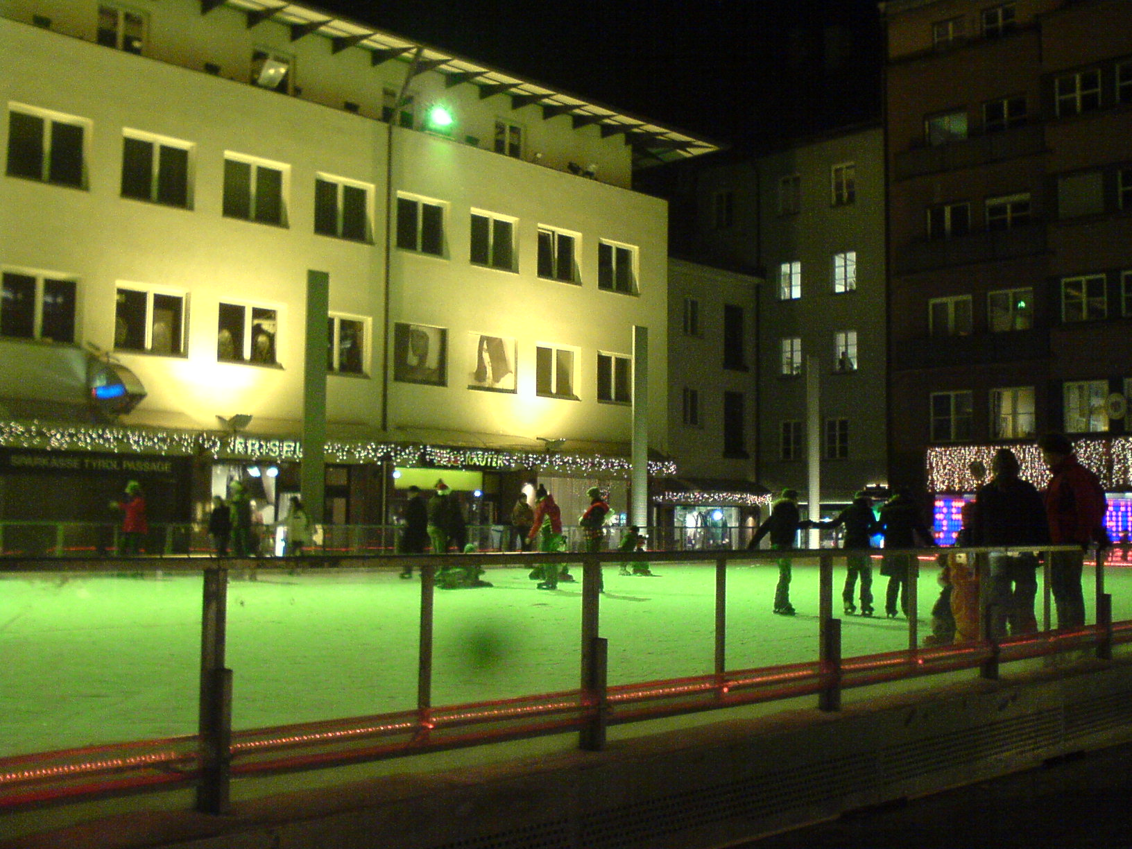 Sparkassenplatz in Innsbruck before Christmas, with skating rink.